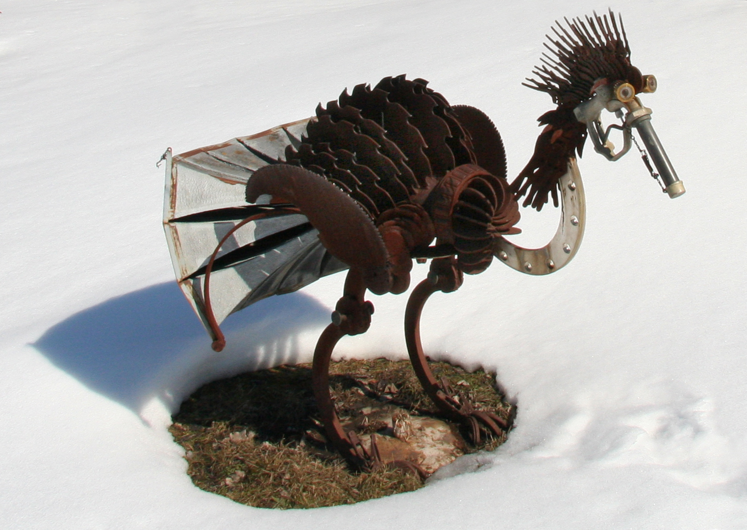 One of the Bird Orchestra sculptures from Dr. Evermor's Forevertron outside Baraboo, Wisconsin